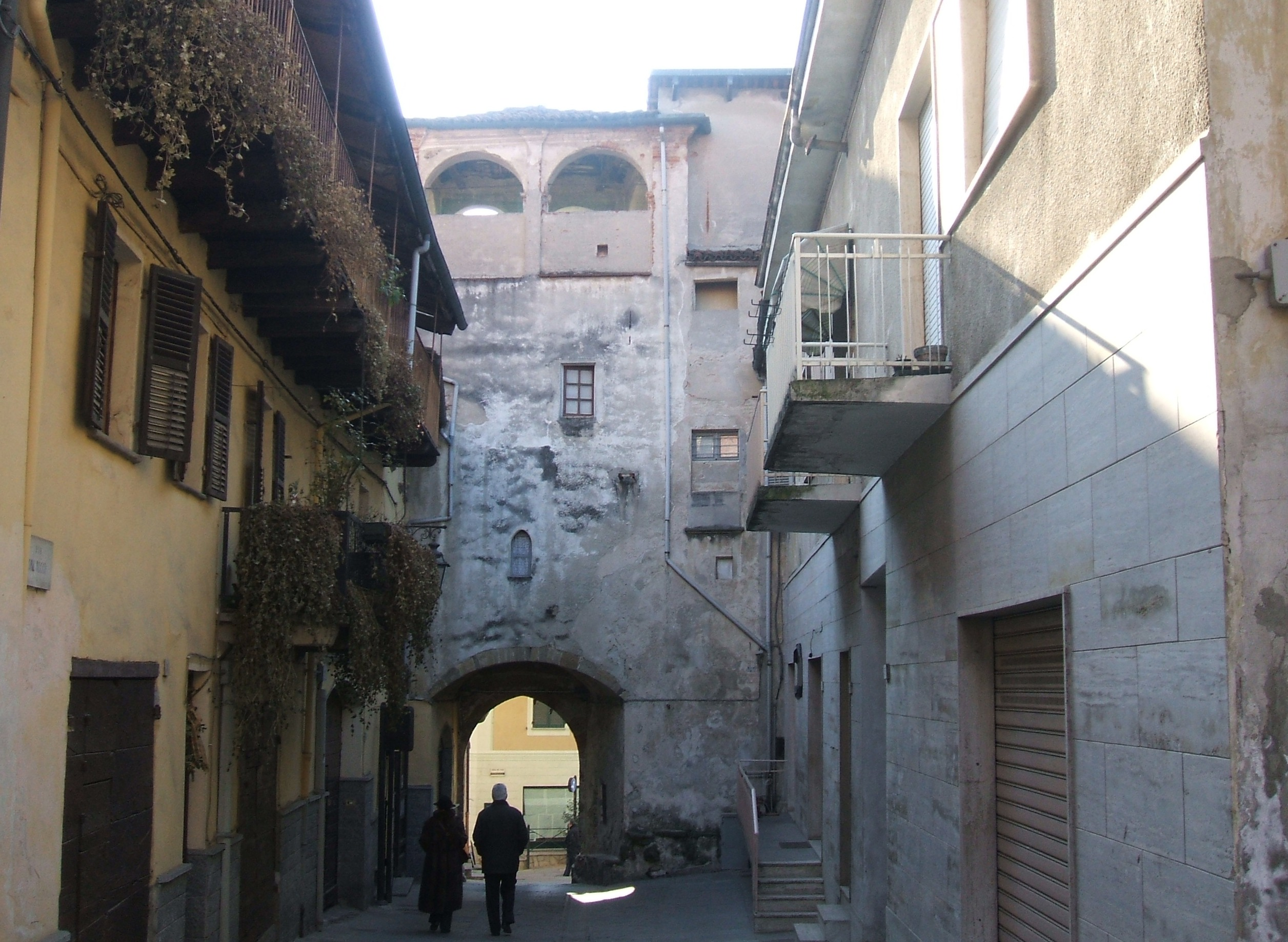 streets of the centre